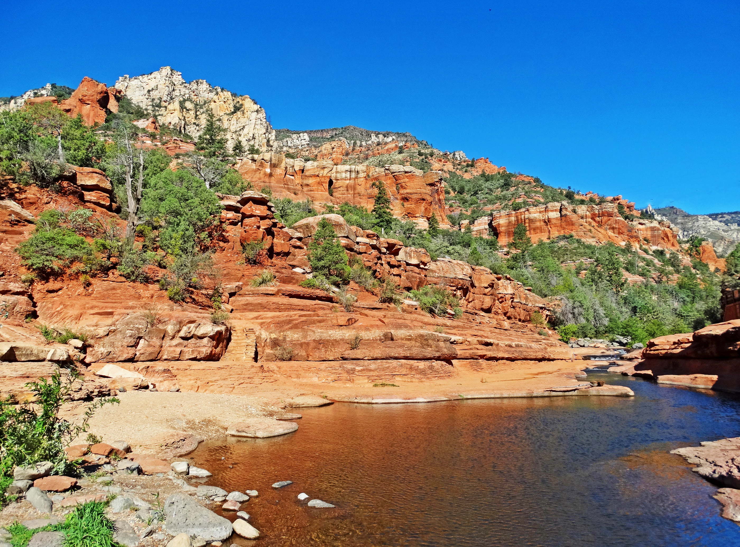 (1 in a multiple picture album) A more beautiful place than Oak Creek Canyon would be hard to find. The last time I wanted to get shots along Slide Rock was in early August of 2013. I couldn't even park close to the park. Had I gotten in, this scene would have had hundreds of swimmers in it. Go for sure, but stay away until schools are in session. Then go early.